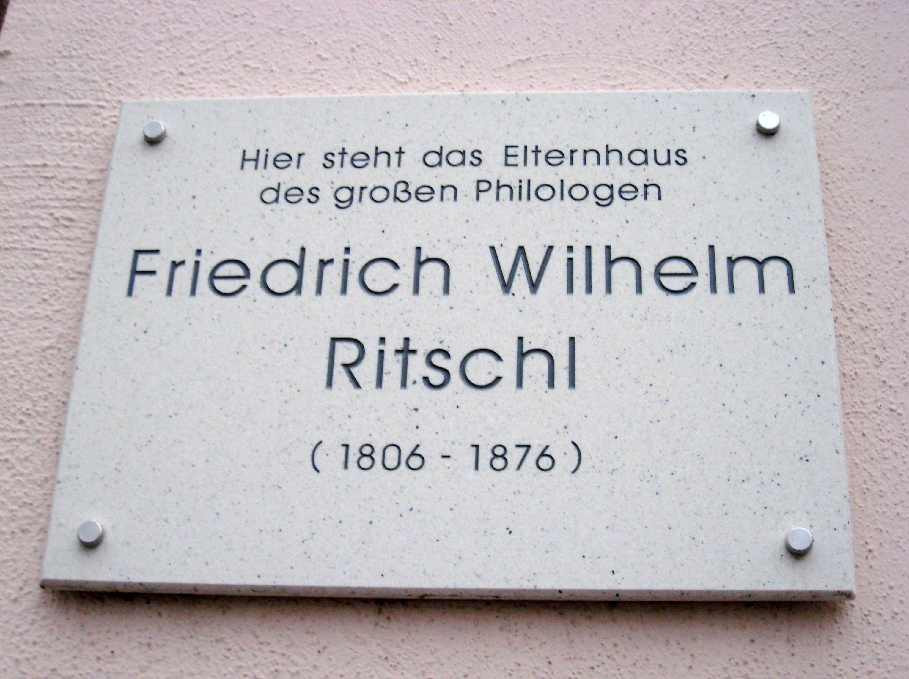 Memorial tablet Friedrich Ritschl, Augustinerstrasse 11, Erfurt